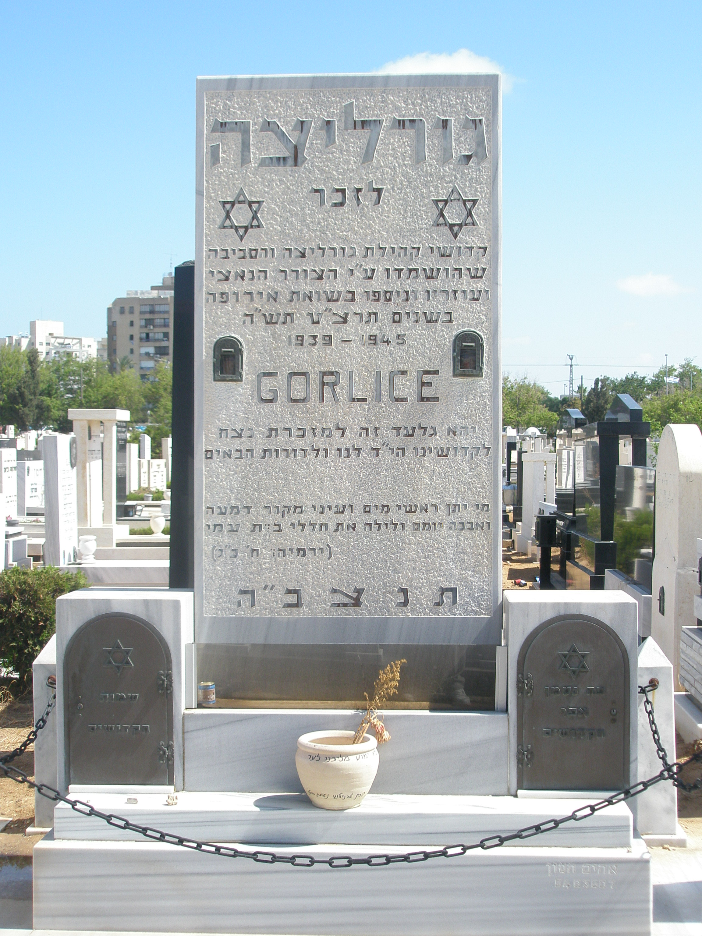 Gorlice memorial at Holon Cemetery